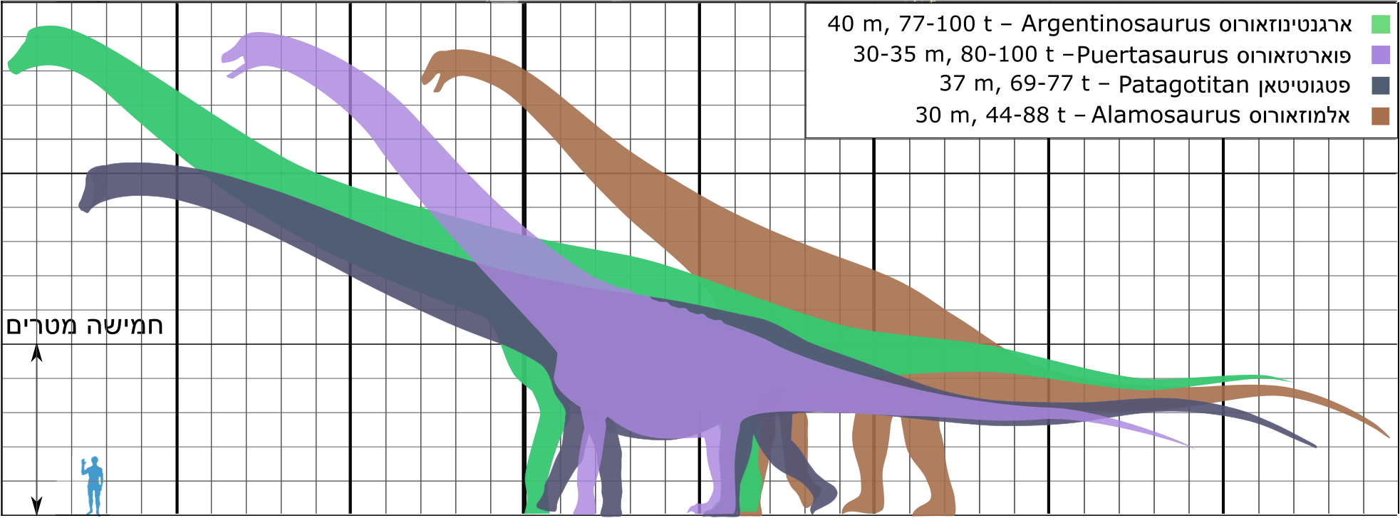 Biggest Dinosaurs: Argentinosaurus (40 m. 77-100 t.), Puertasaurus (30-35 m. 80-100 t.), Patagotitan (37 m. 69-77 t.) and Alamosaurus (30 m. 44-88 t.)